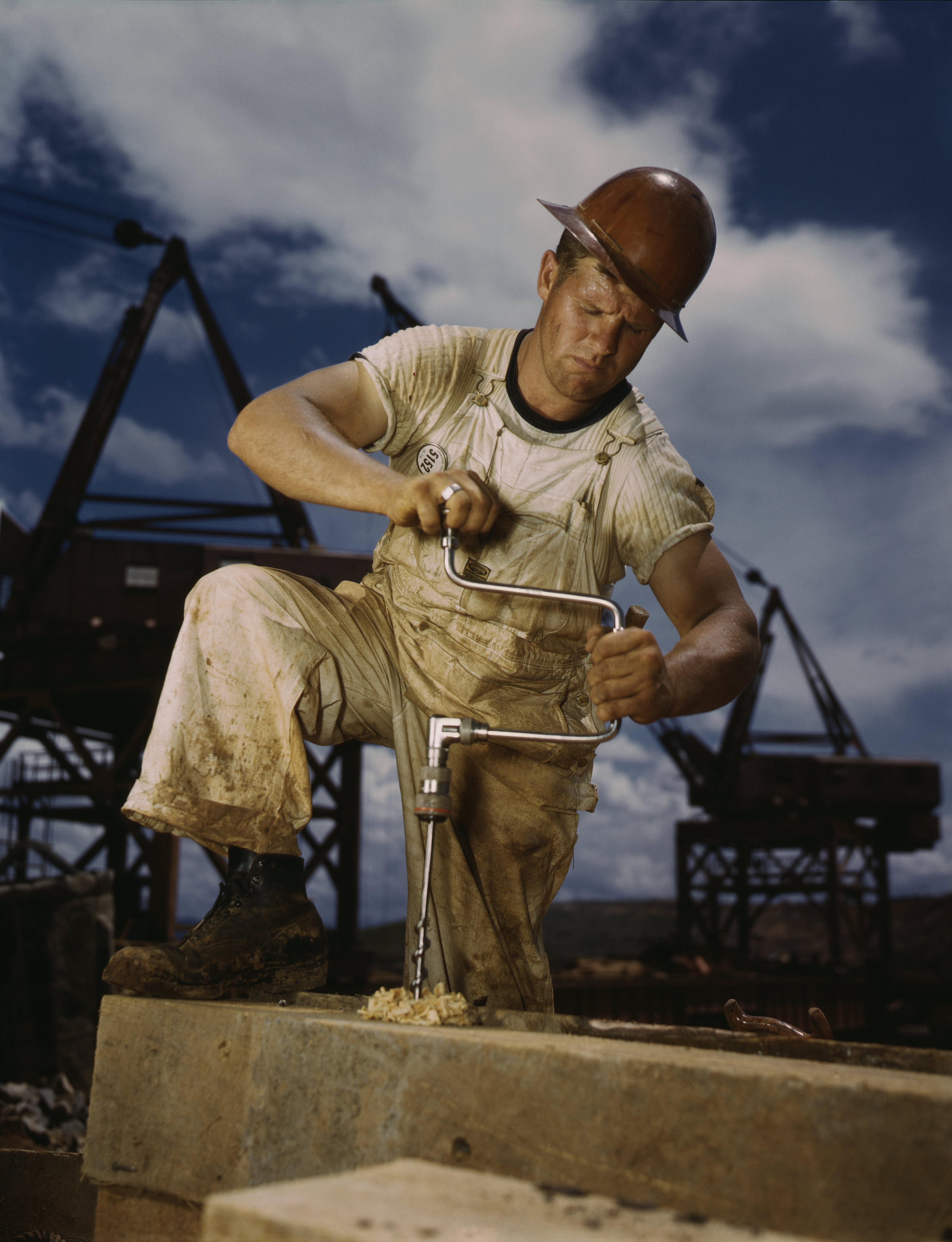 Carpenter at work on Douglas Dam, Tennessee (TVA)